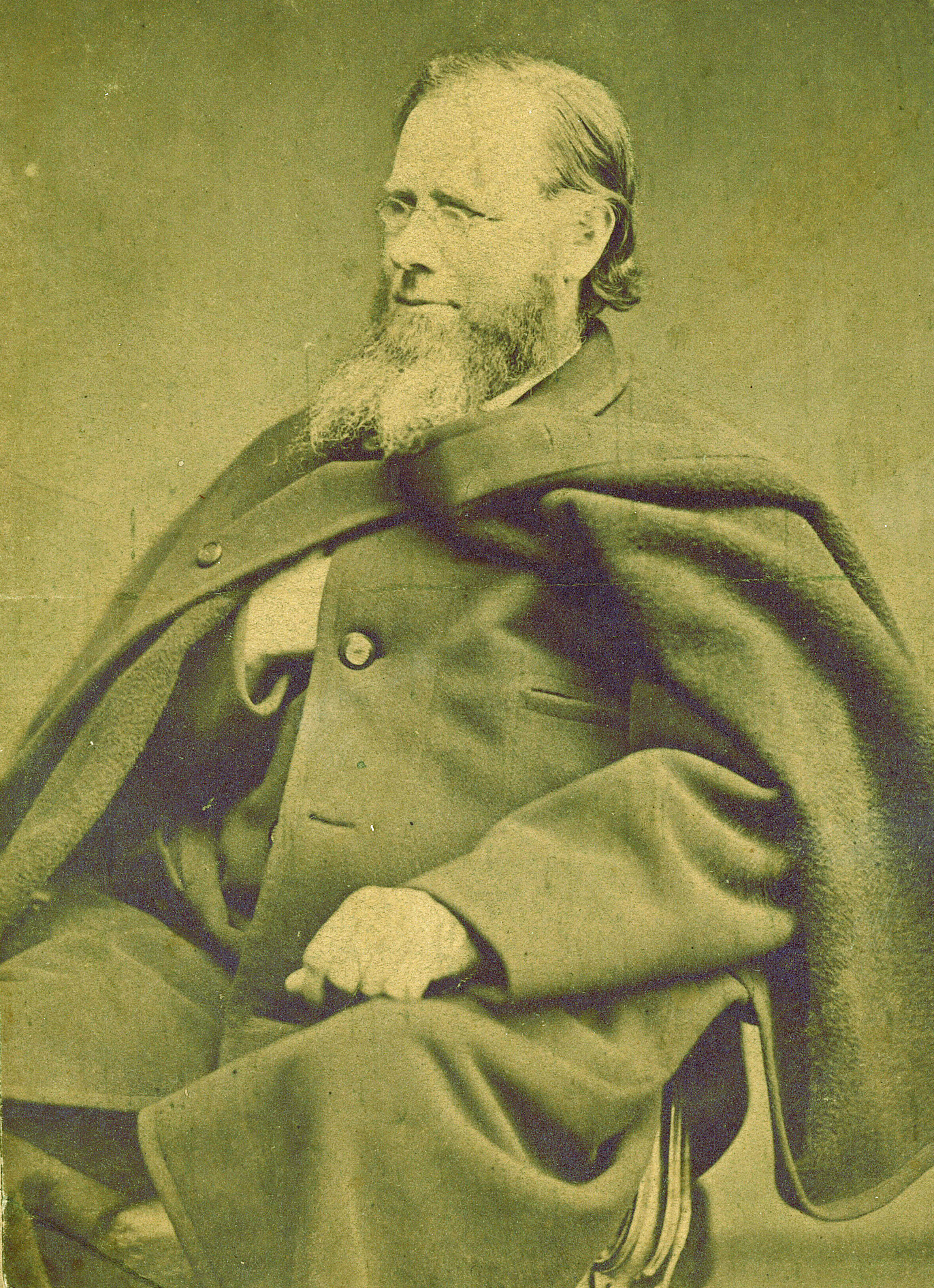 Picture of Isaac Hecker